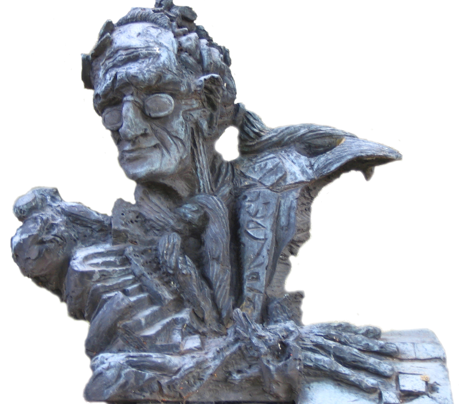 Sculpture of Johann Peter Hundeiker in Vechelde palace garden, bronze, by Ben Siebenrock 1979, Lower Saxony, Germany. Isolated on white background.